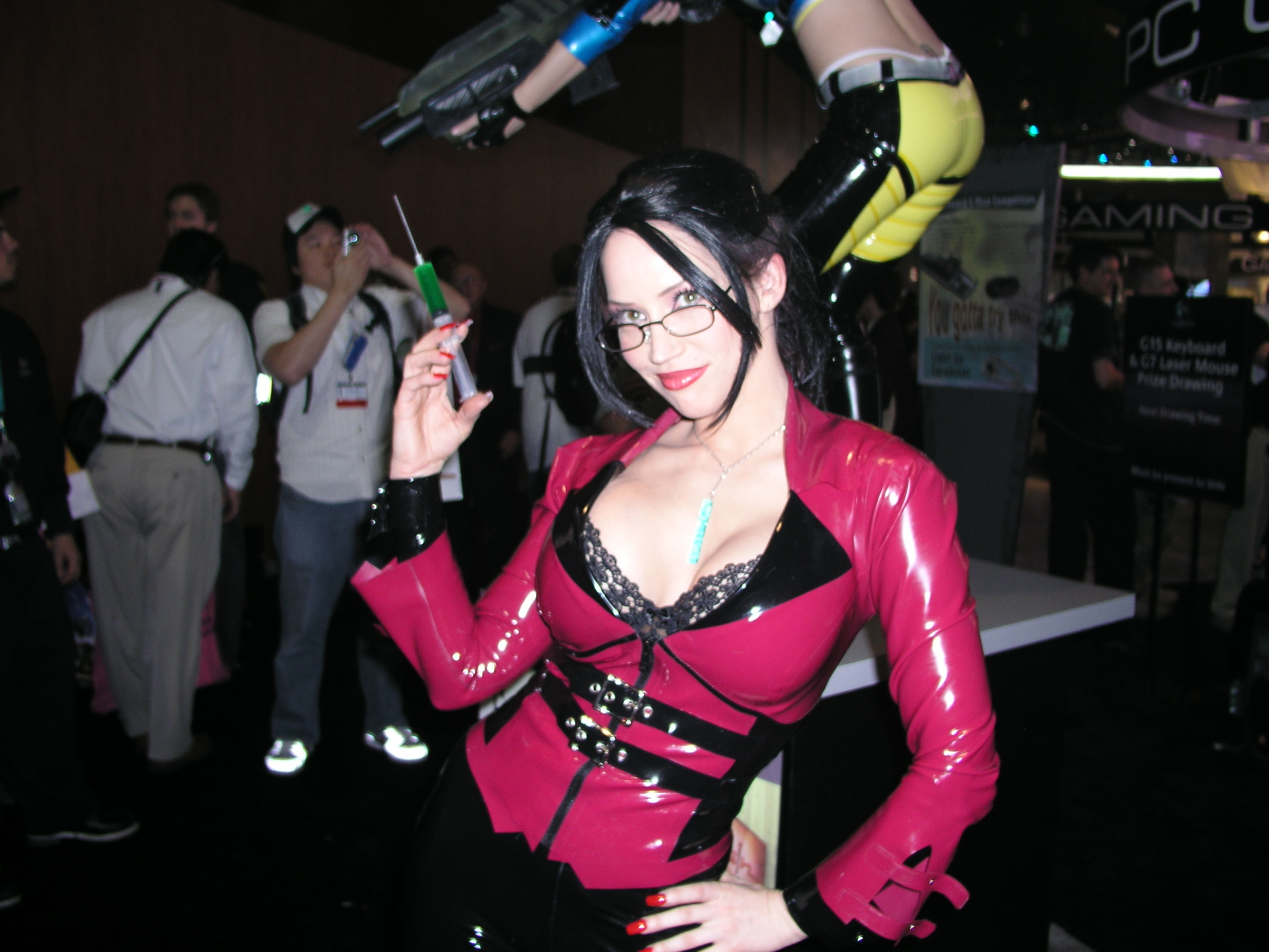 Bianca Beauchamp at the E3 2006.